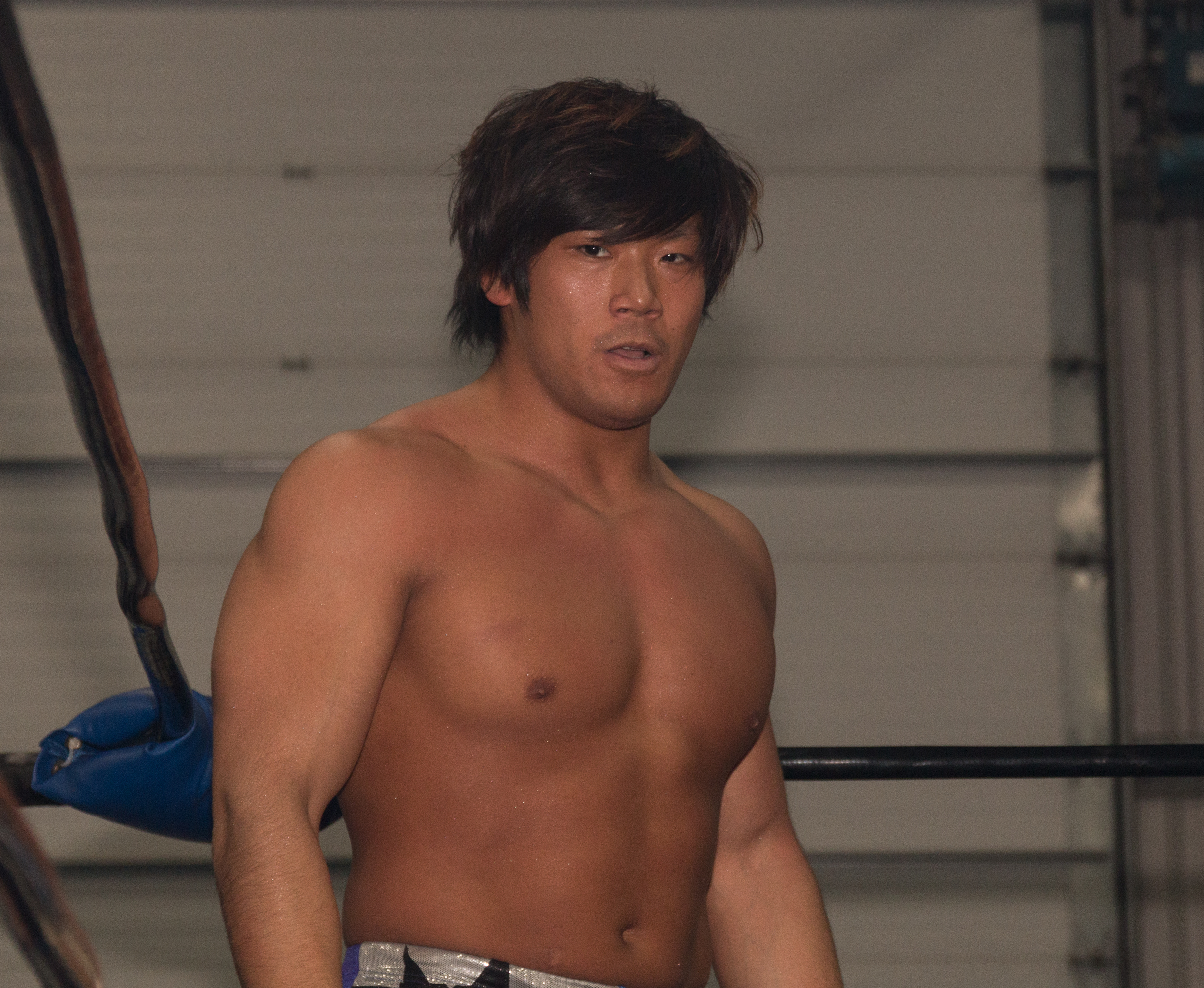 Seiya Sanada making his ring entrance at Smash Wrestling's Battle Lines at the Canlan Sportsplex in Mississauga, ON